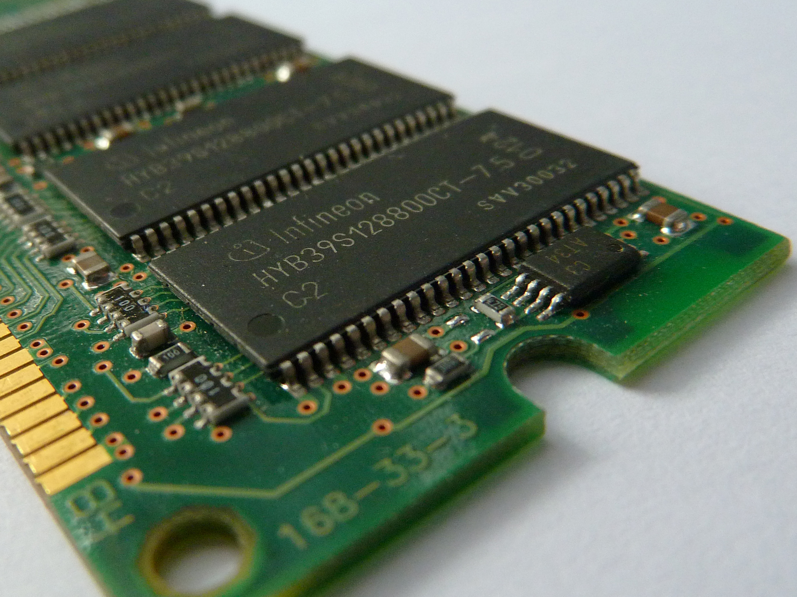 This image shows a chip on a RAM.